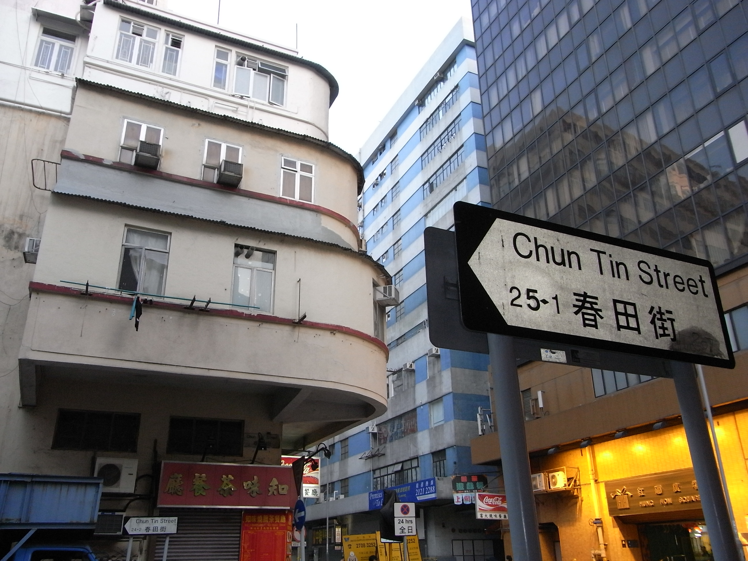 Corner of Chun Tin Street and Hok Yuen Street